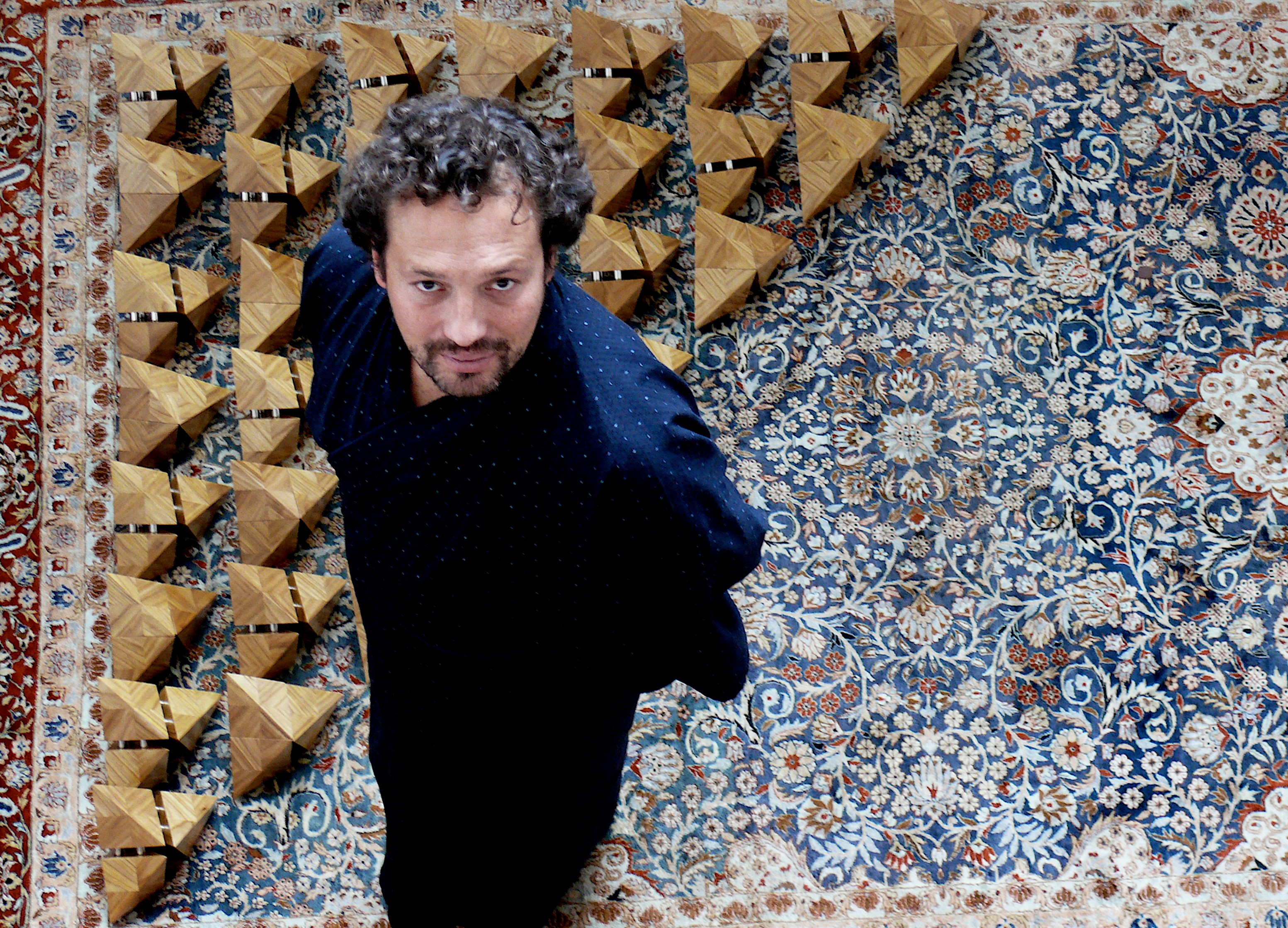 Artist Portrait picture